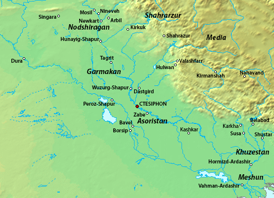 Map of Iraq under late Sasanian rule. The map is from this file